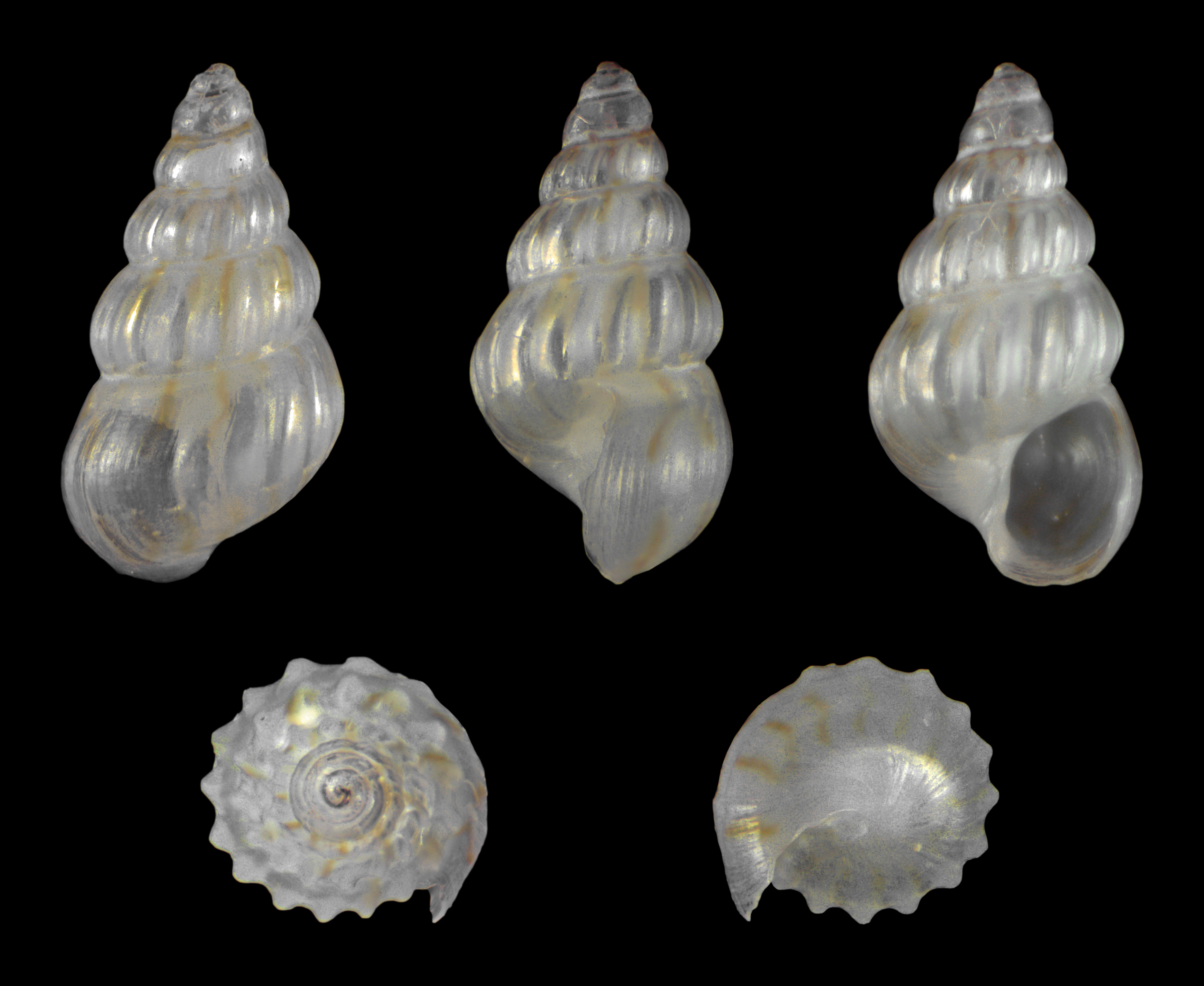 Length 0.17 cm; Originating from Mallorca, Spain; Shell of own collection, therefore not geocoded. Dorsal, lateral (right side), ventral, back, and front view.